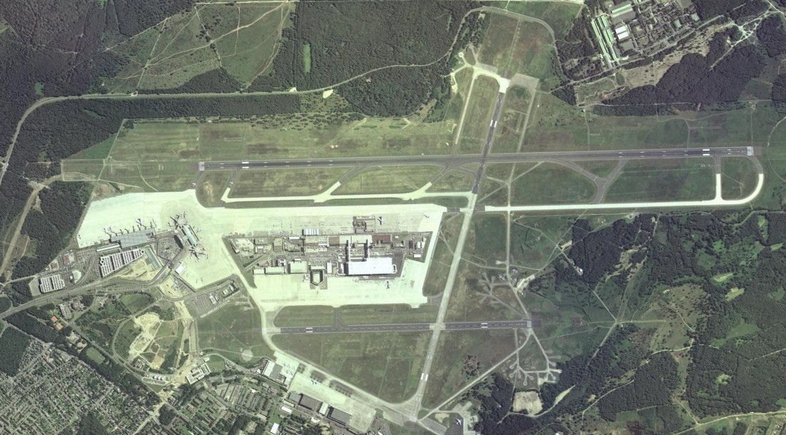 Aerial view of the Cologne Bonn Airport